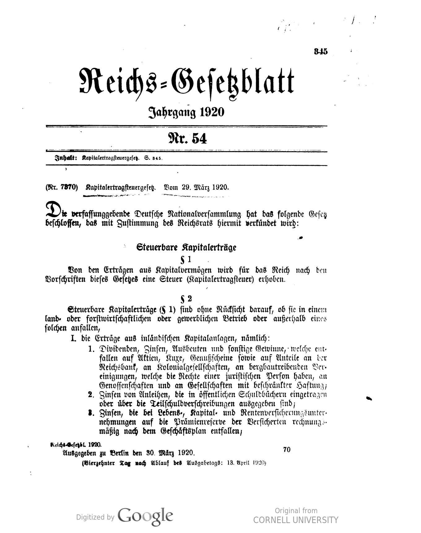 Scan from the Imperial Law Gazette of Germany, 1920